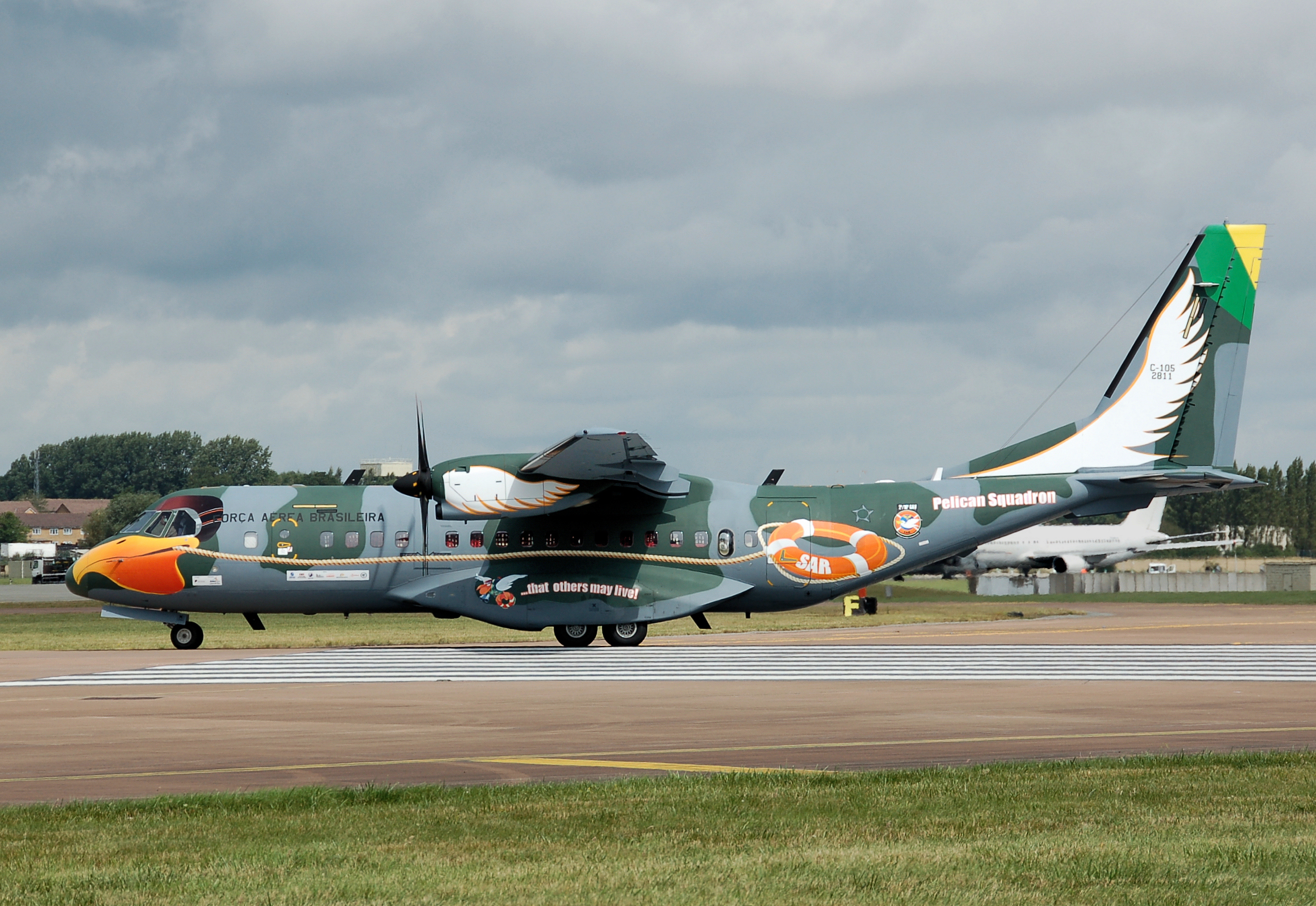 EADS CASA C-295 (Model C-105), code 2811, Search And Rescue aircraft of the Brazilian Air Force, taxis for takeoff at the 2009 Royal International Air Tattoo, Fairford, Gloucestershire, England.